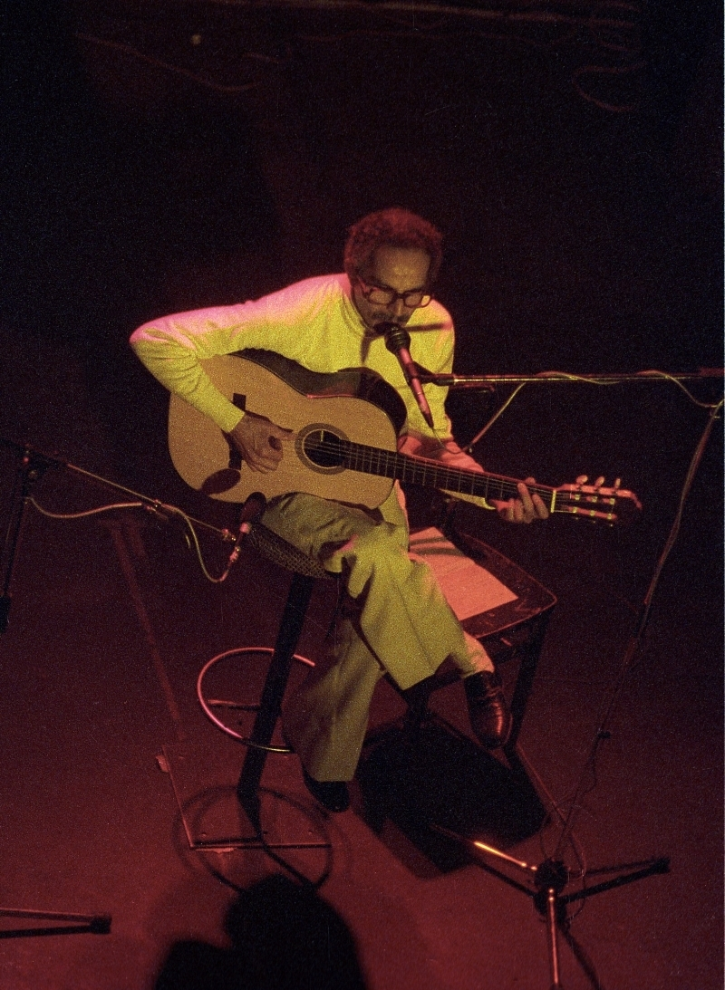 Baden Powell in a 3 1/2 hour solo session in the Fabrik, Hamburg, Germany